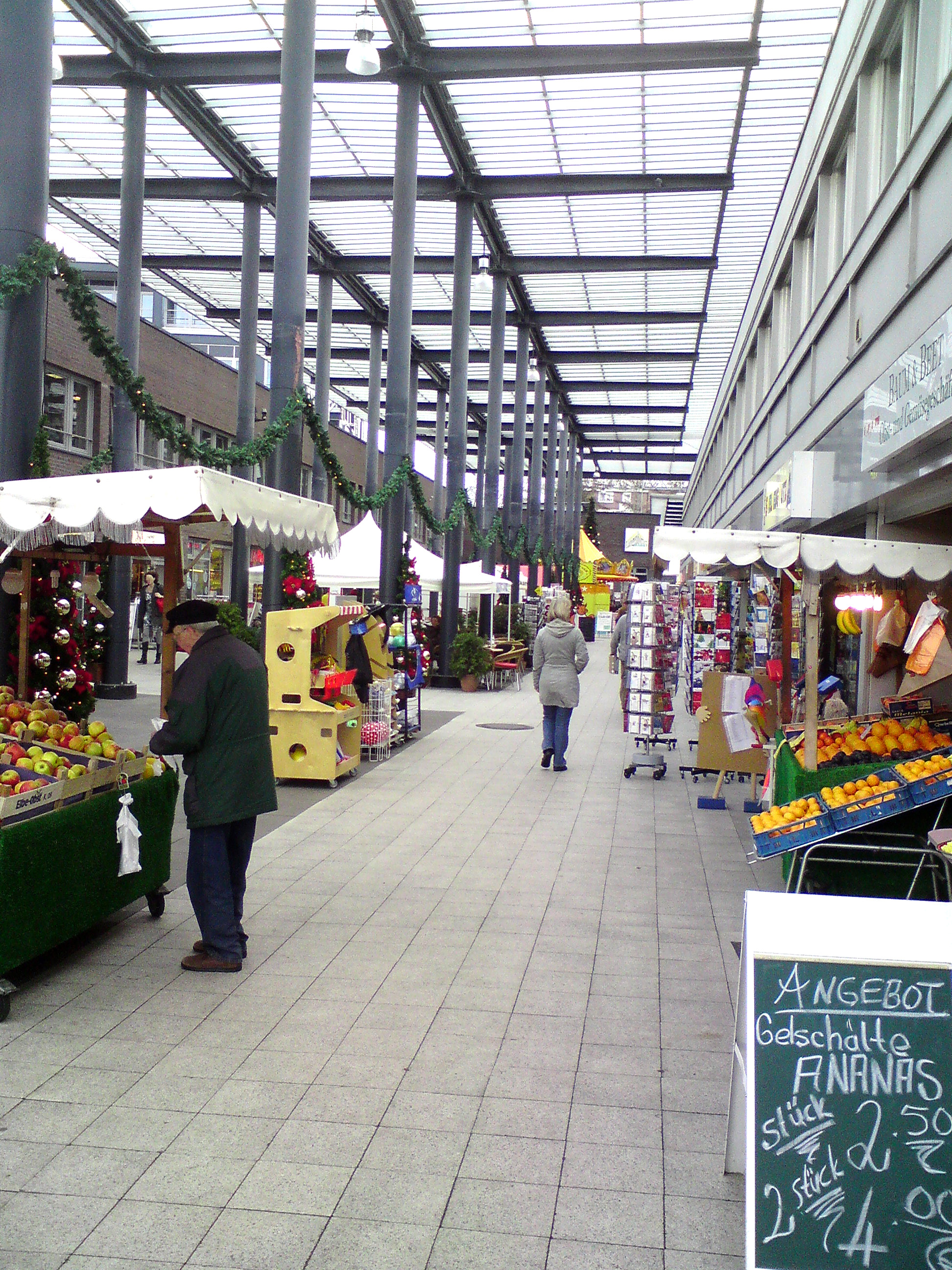 Shopping Centre Langenhorner Markt in Hamburg-Langenhorn, Germany